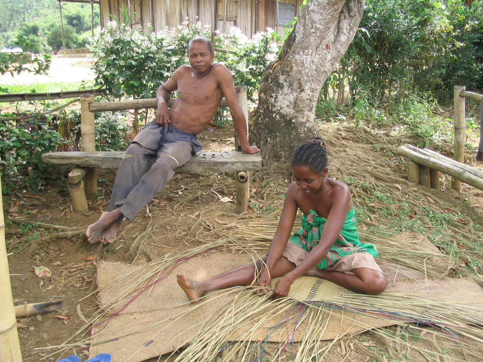 Malagasy girl near Marojejy National Park weaving mats using local materials